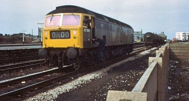 Morecambe railway station Original description: Morecambe station 1976 with Heysham oil train A class 47 locomotive, as yet to be repainted in "corporate blue" livery, runs round a train of oil tanks bound for Heysham at Morecambe station which then abutted directly onto the promenade. Since 1976, the station has been relocated further inland and the facilities in the photograph have been redeveloped, erasing all traces of the railway.